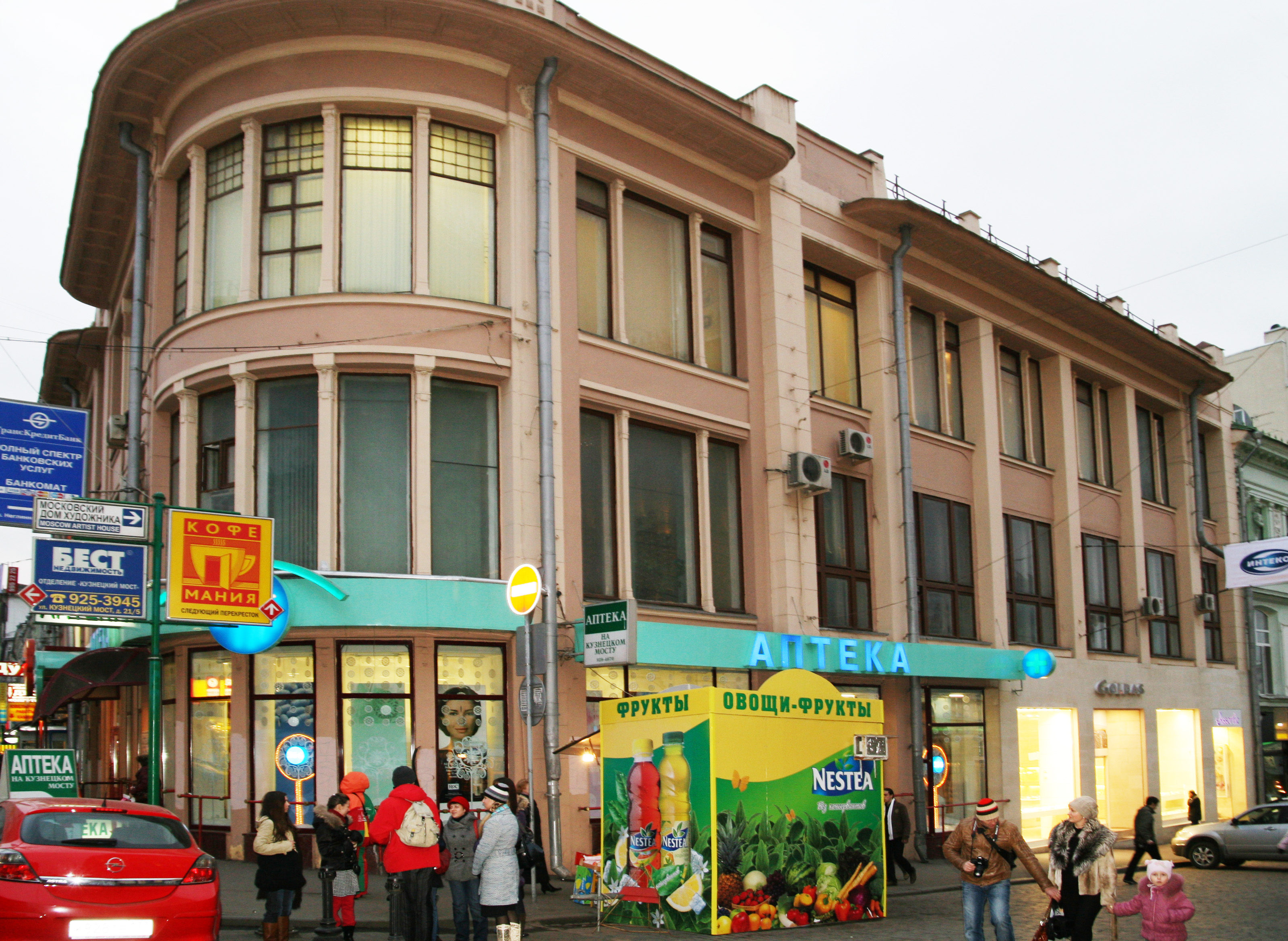 Moscow, Kuznetsky Most Street 18